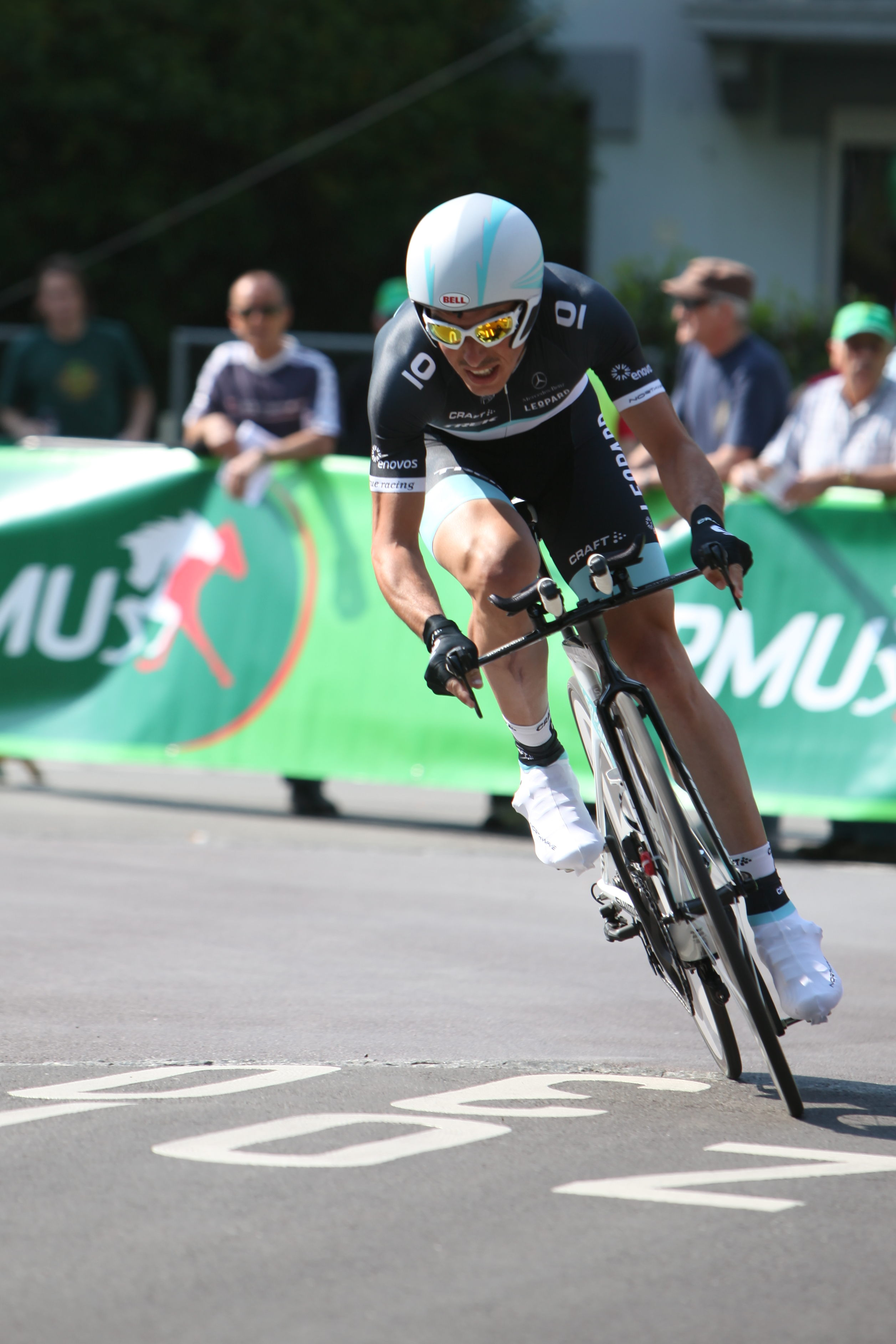 Bruno Pires at the prologue of the Tour de Romandie 2011